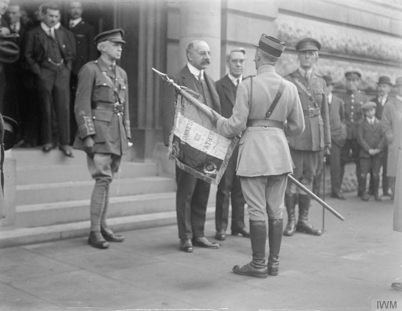 Imperial War Museum Galleries at the Crystal Palace, 1920 - 1924 Presentation to the Imperial War Museum, Crystal Palace, by General Viscount de la Panouse and Colonel Marie on behalf of the 61st French Regiment, 42nd Infantry Division, French Army of a replica of the colours of that Regiment, in commemoration of the combined offensive of the French and British Armies, at the Battle of Amiens, 8 August 1918. Colonel Marie, together with Lady Conway and Major Charles ffoulkes at the side of the French 75mm gun. Colonel Marie addressing Sir Alfred Mond; Sir Martin Conway, Major ffolkes and Captain Kendall are in the photograph.